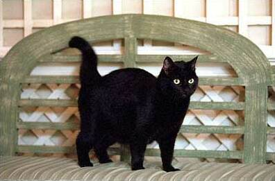 India the Cat on a chair in the West Garden Room in the White House